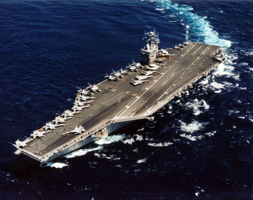 ...official US Navy photos taken during the ship's 10th Med Cruise (1998).